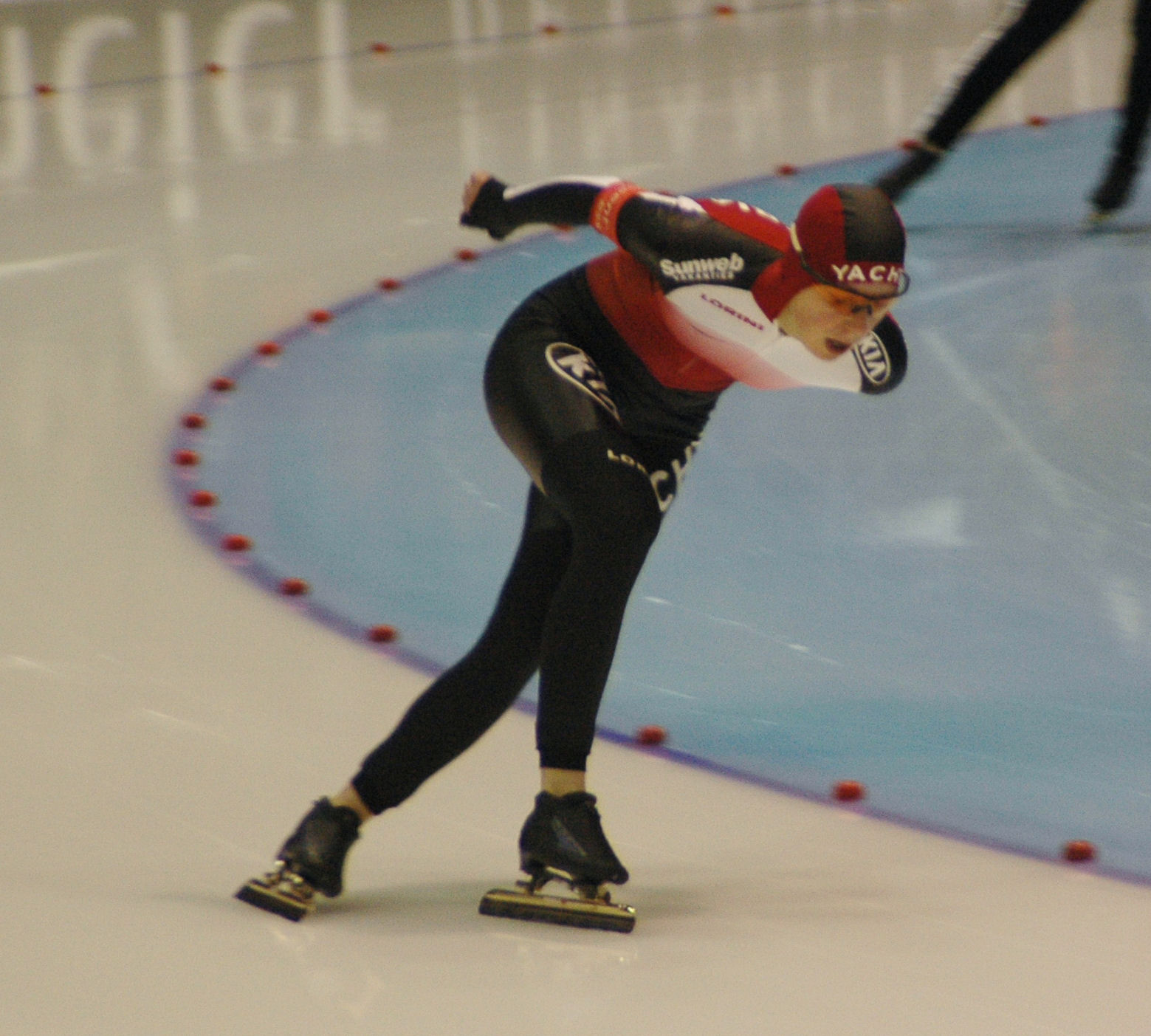 Anna Rokita (AUT) at WorldCup speedskating in Heerenveen (NED) in action during the 1500 meters.